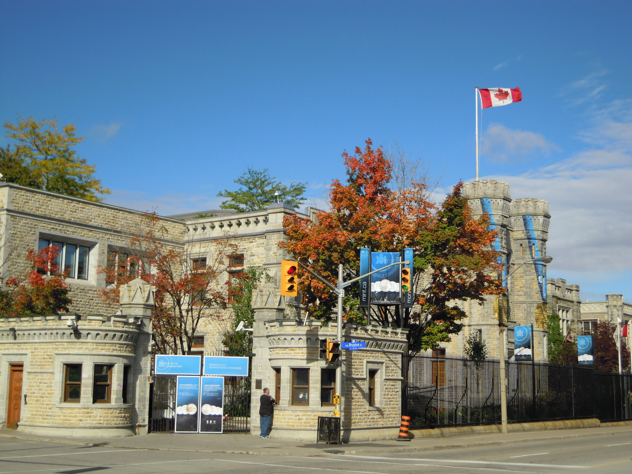 The Sussex Drive gates to the Royal Canadian Mint in Ottawa, Ontario, Canada.